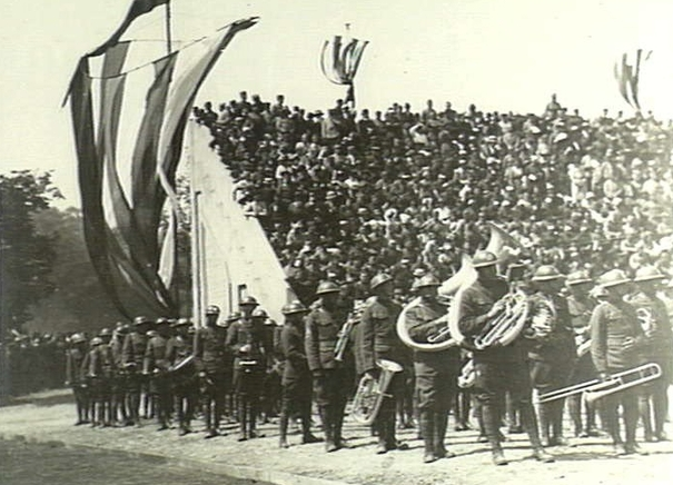 Paris, France. 22 June 1919. The opening ceremonies of the Inter Allied Games held at the Pershing Stadium, during June 1919 and July 1919. Seen here is the American Army Band marching on to the stadium at the head of the American Section of the Guard of Honour, to be inspected by General Pershing. Note the large crowd in the background.